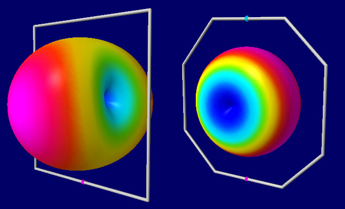 Large and small loop antenna patterns. Showing the radiation patterns for half wave resonant loop antenna, and small loop antenna Graphic prepared by myself using 4NEC2 free software.